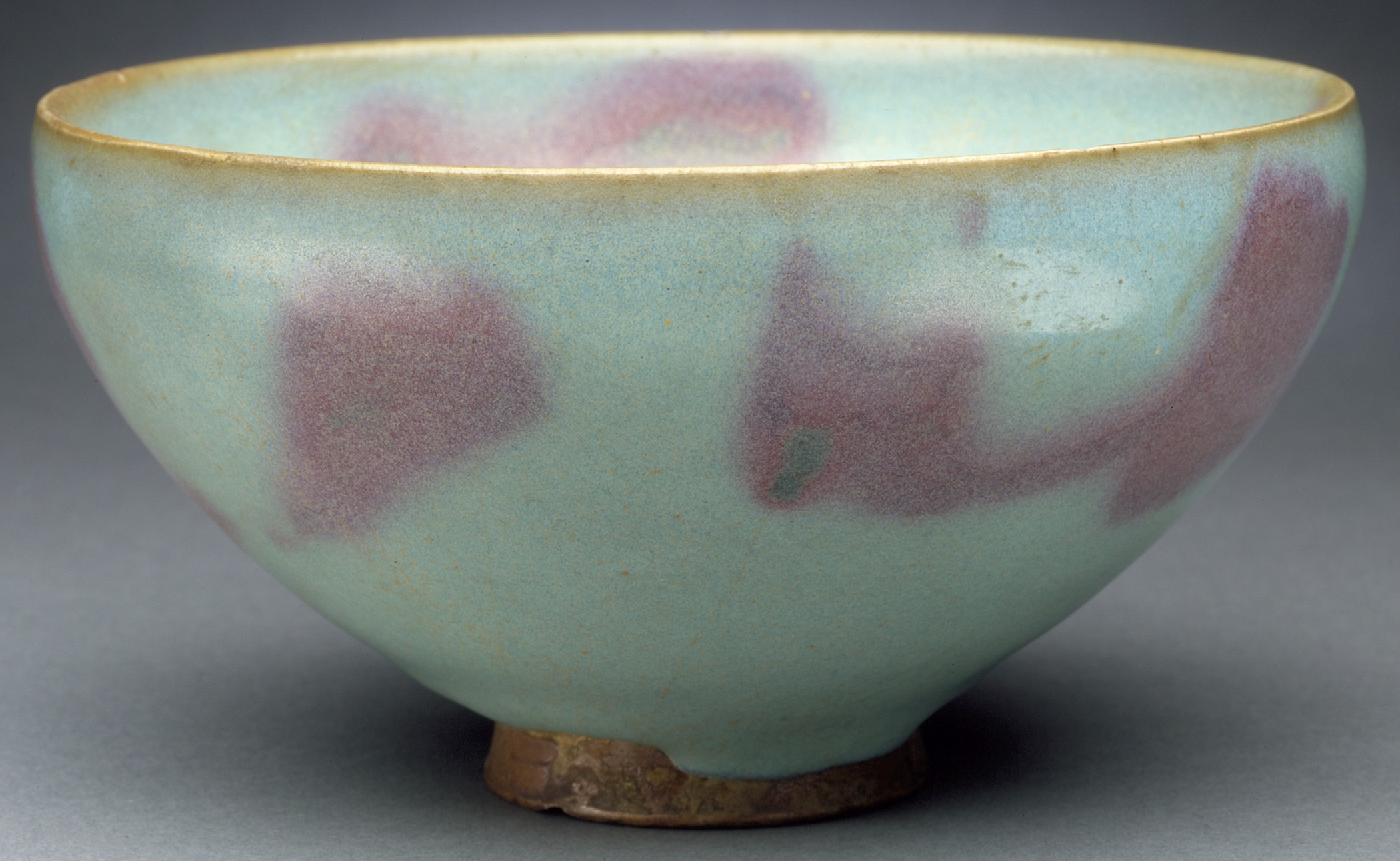 China, Henan Province, Jin dynasty, 1127-1234 Furnishings; Serviceware Jun ware, wheel-thrown stoneware with blue glaze and purple splashes Height: 3 3/8 in. (8.6 cm): Diameter: 5 7/8 in. (14.9 cm) Gift of Nasli M. Heeramaneck (M.73.48.132) Chinese Art